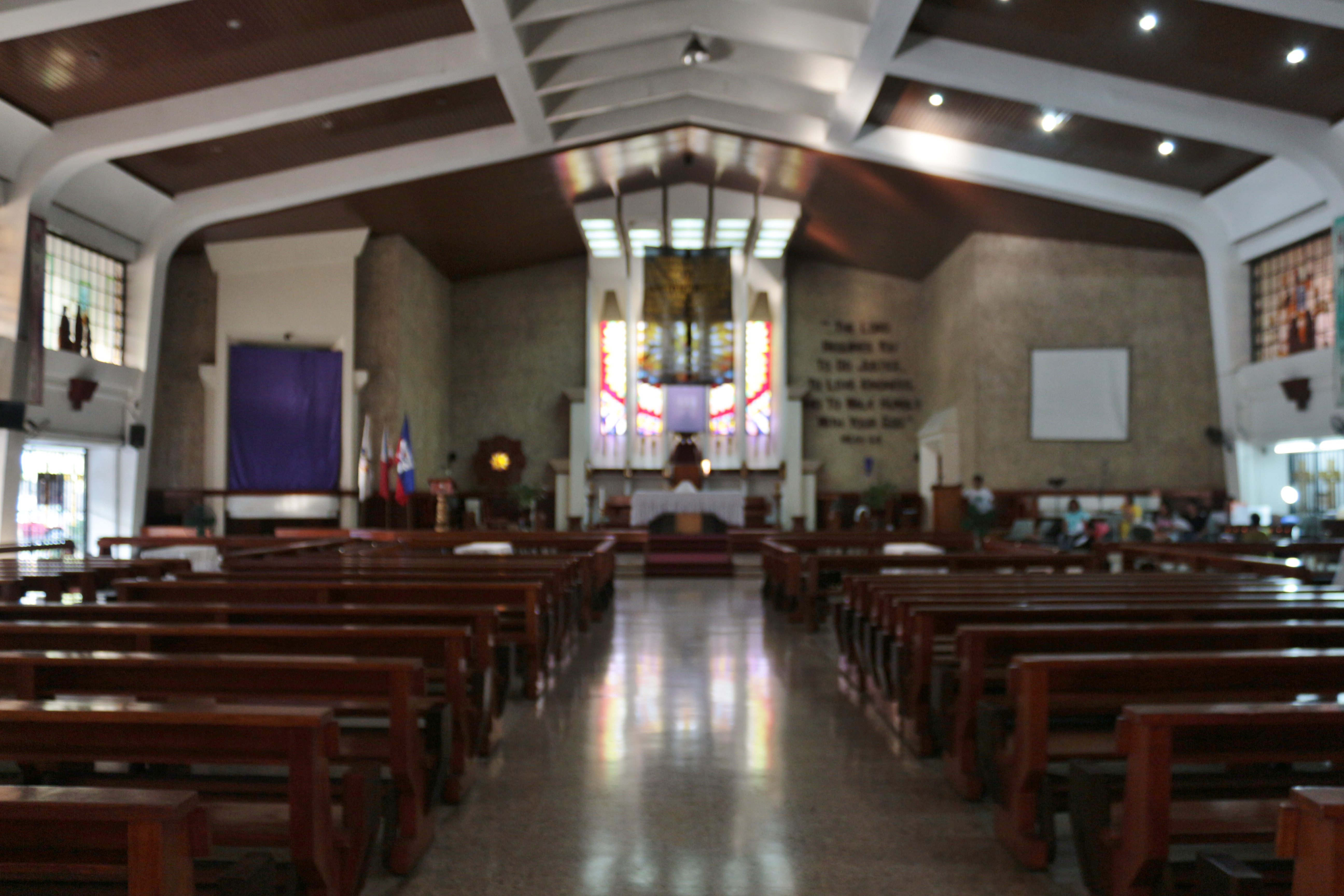 cathedral interior